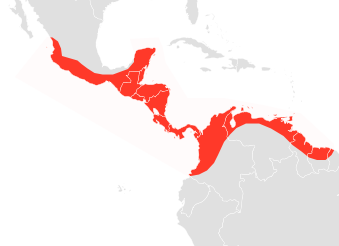 Distribution of Molossus sinaloae